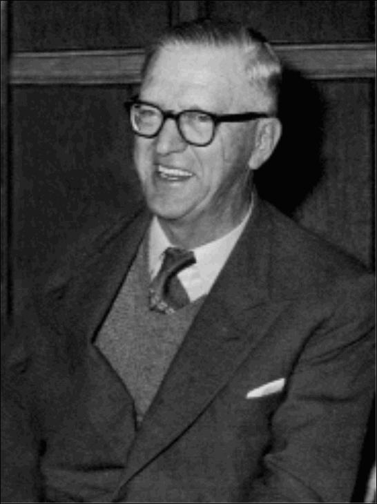 South African President C.R. Swart, during his term in office in the 1960's.